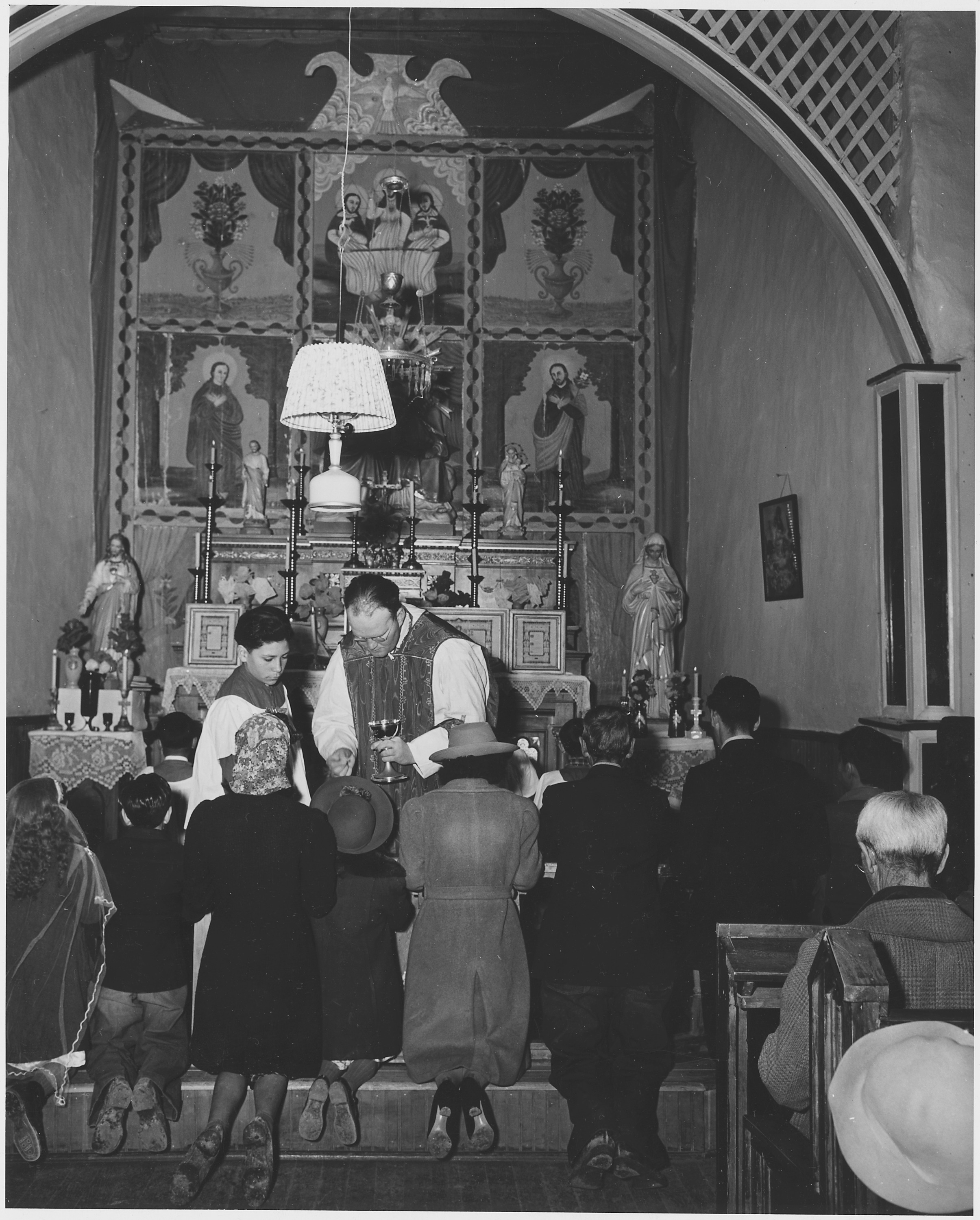 Scope and content: Full caption reads as follows: Taos County, New Mexico. Father Morgan administers sacrament during Mass at Arroyo Seco.